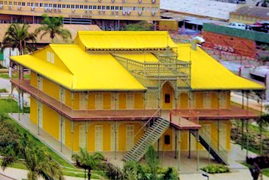 Palácio de Ferro (Iron Palace) in Angola. Attributed to Gustave Eiffel or more likely to one of his disciples (1885/1900)